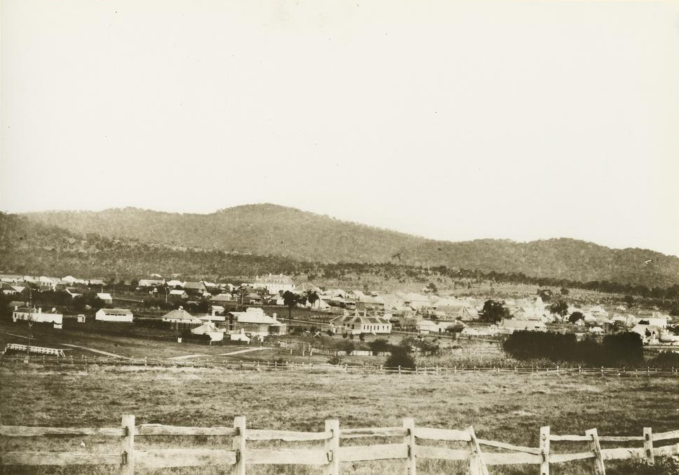 View of Tenterfield, New South Wales, 1887 First European settlement was in the late 1830s. The Deepwater pastoral station to the south was taken up in 1839 and the run later known as Tenterfield was first occupied in 1840. By 1887, Tenterfield was a thriving town, the railway arrived in 1886.